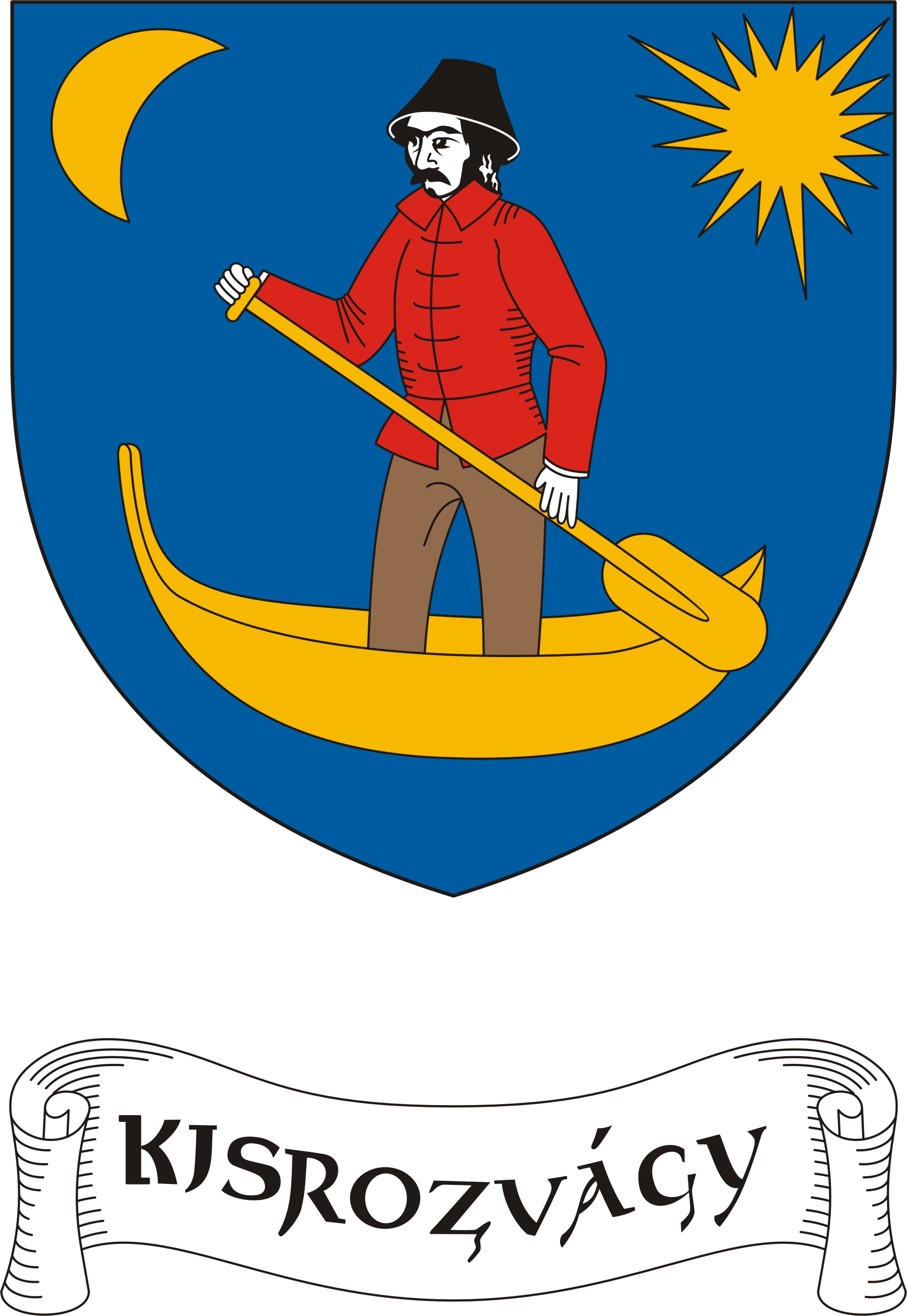 Coat of arms of Kisrozvágy, Hungary